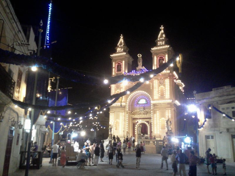 Marsaxlokk parish church during festa